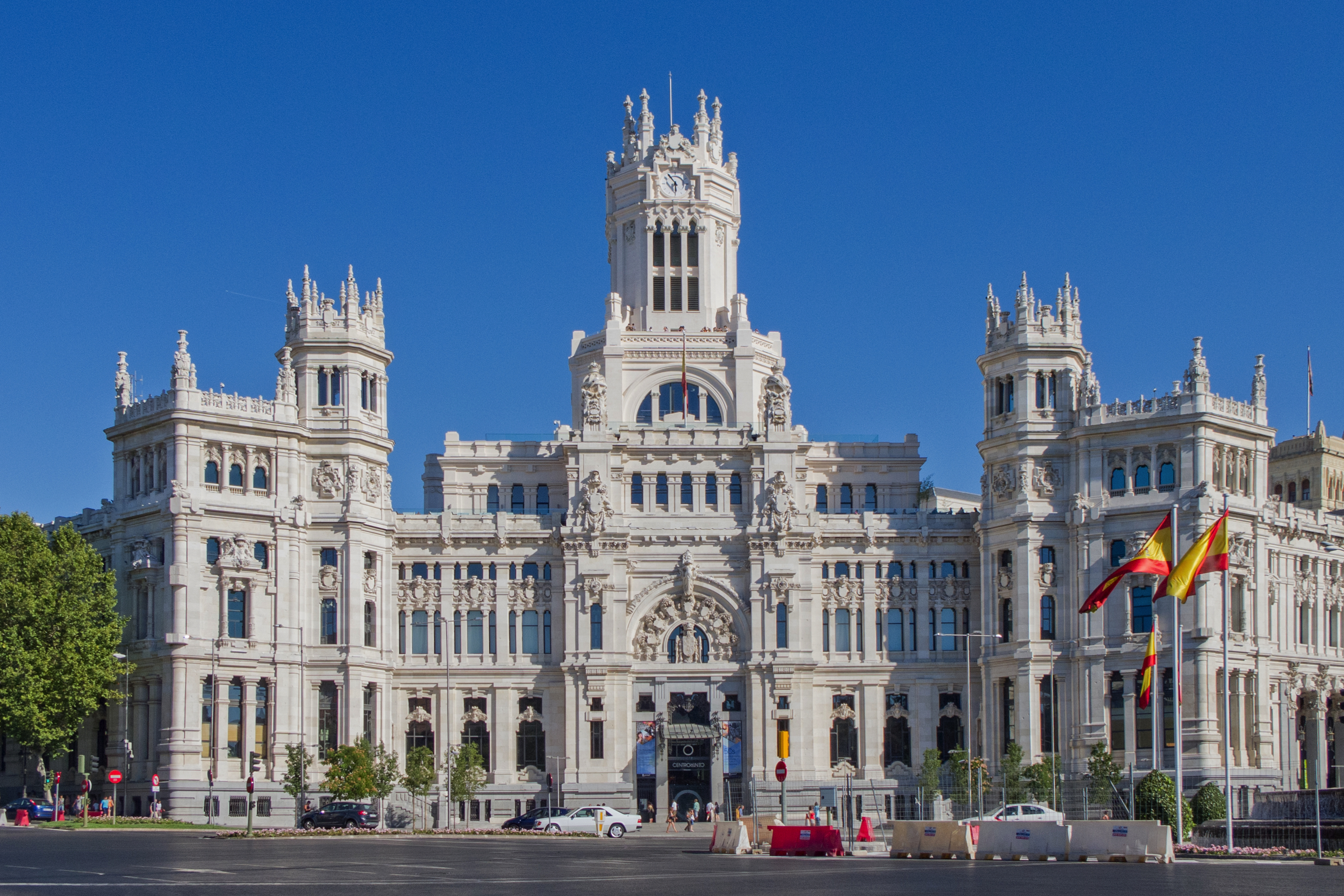 Palace of Communication, Madrid, Spain.